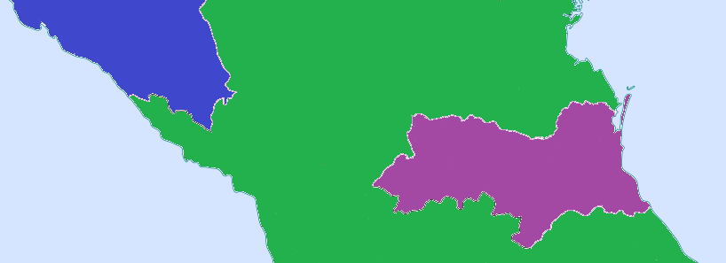 Territory of Caucasian Imamate in january, 1845